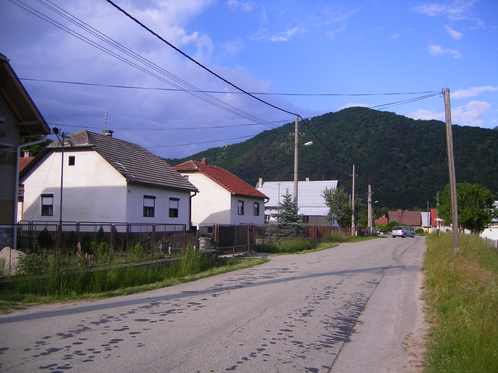 Ratkovo - street view